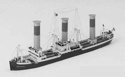 Model of the Rotorship Barbara. Original was build up 1926 in Bremen/Germany. The ship had 3 Flettner-Rotors. Installed 2006 by Dr. Wessmann